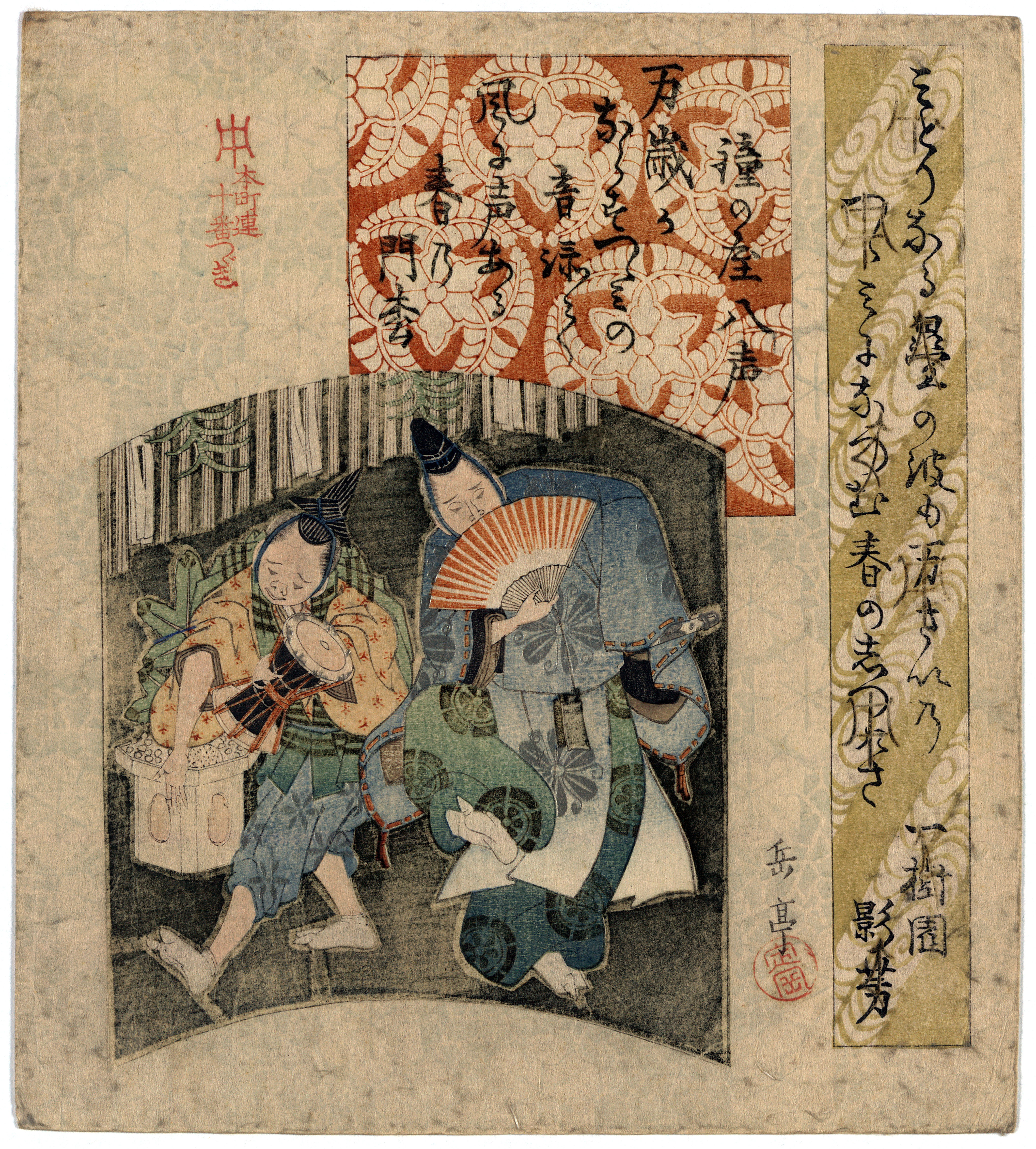 Two strolling comedic actors (manzaishi), at a traditional Japanese New Year celebration; one is carrying a hand-held drum and the other is holding a fan in front of his face. Shikishiban surimono by Yashima Gakutei for the poetry club Honchō-ren, signed: Gakutei, sealed: Sadaoka c. 1820